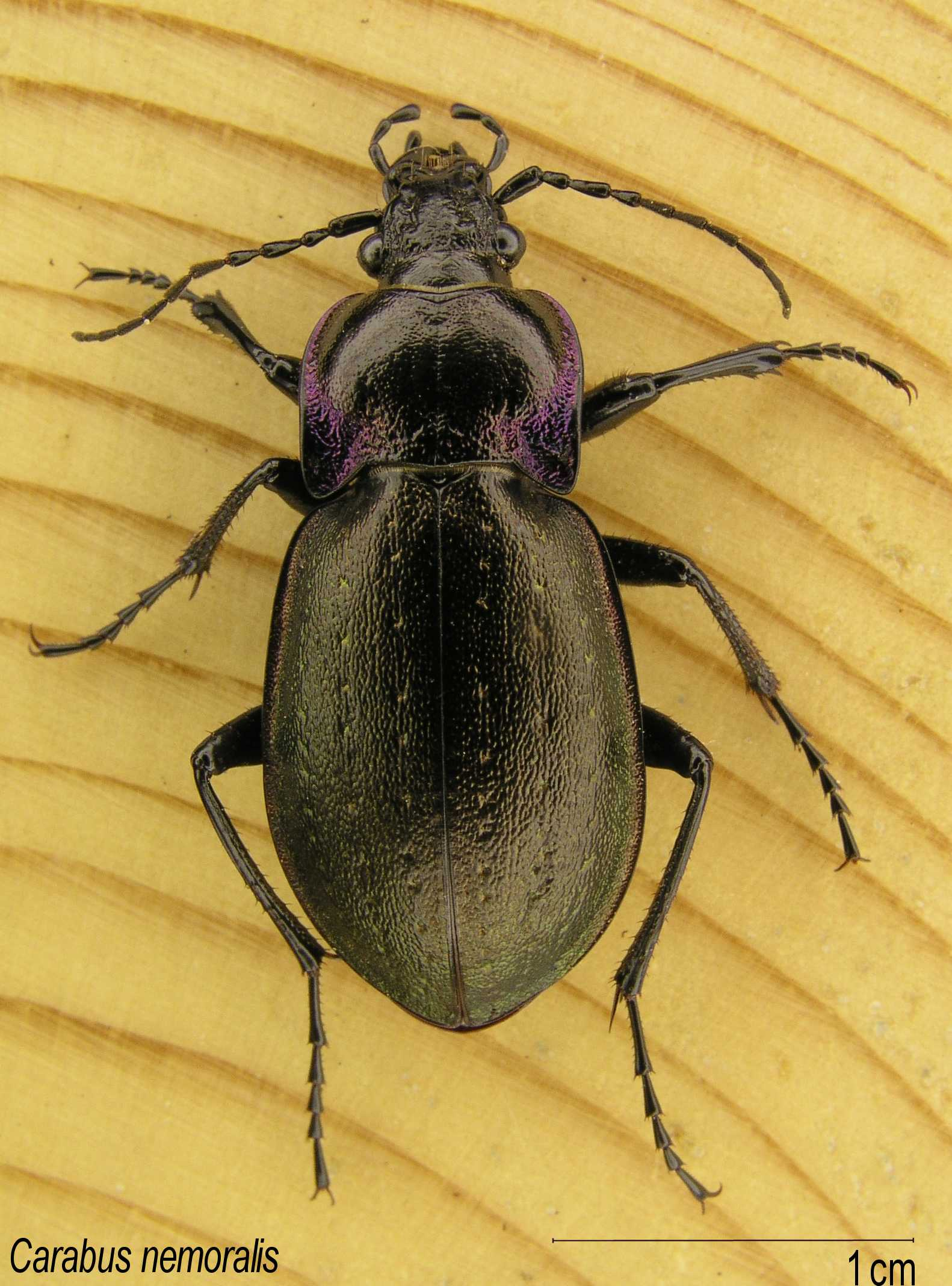 Carabus nemoralis, found Netherlands, Otterlo 2 sept 2005 By E.H. van Herk in a mixed pine/deciduous forest with sandy patches. Photographed by E. van Herk 2005 This Photo hereby made available under GFDL